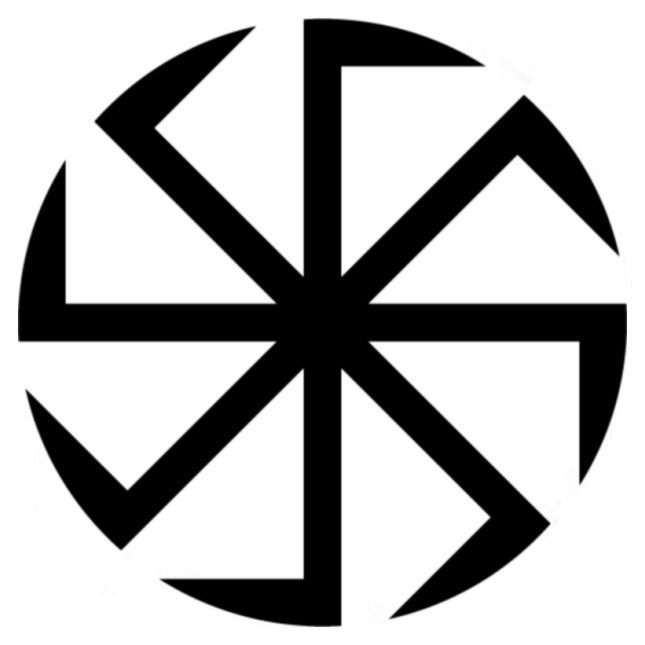 The kolovrat ("spoked wheel") is a symbol of the supreme God in Rodnovery (Slavic Native Faith), Rod and its manifestations (Svarog, Perun, Svetovit and all the other gods). Kolo means "wheel", and its vrat ("spokes") are spinning. It is a symbol of spiritual and therefore secular power. The kolovrat represents the endless cycle of birth and deaths, time, the sun and fire, strength and dignity. Each turn of the wheel is a cycle of life in our world.